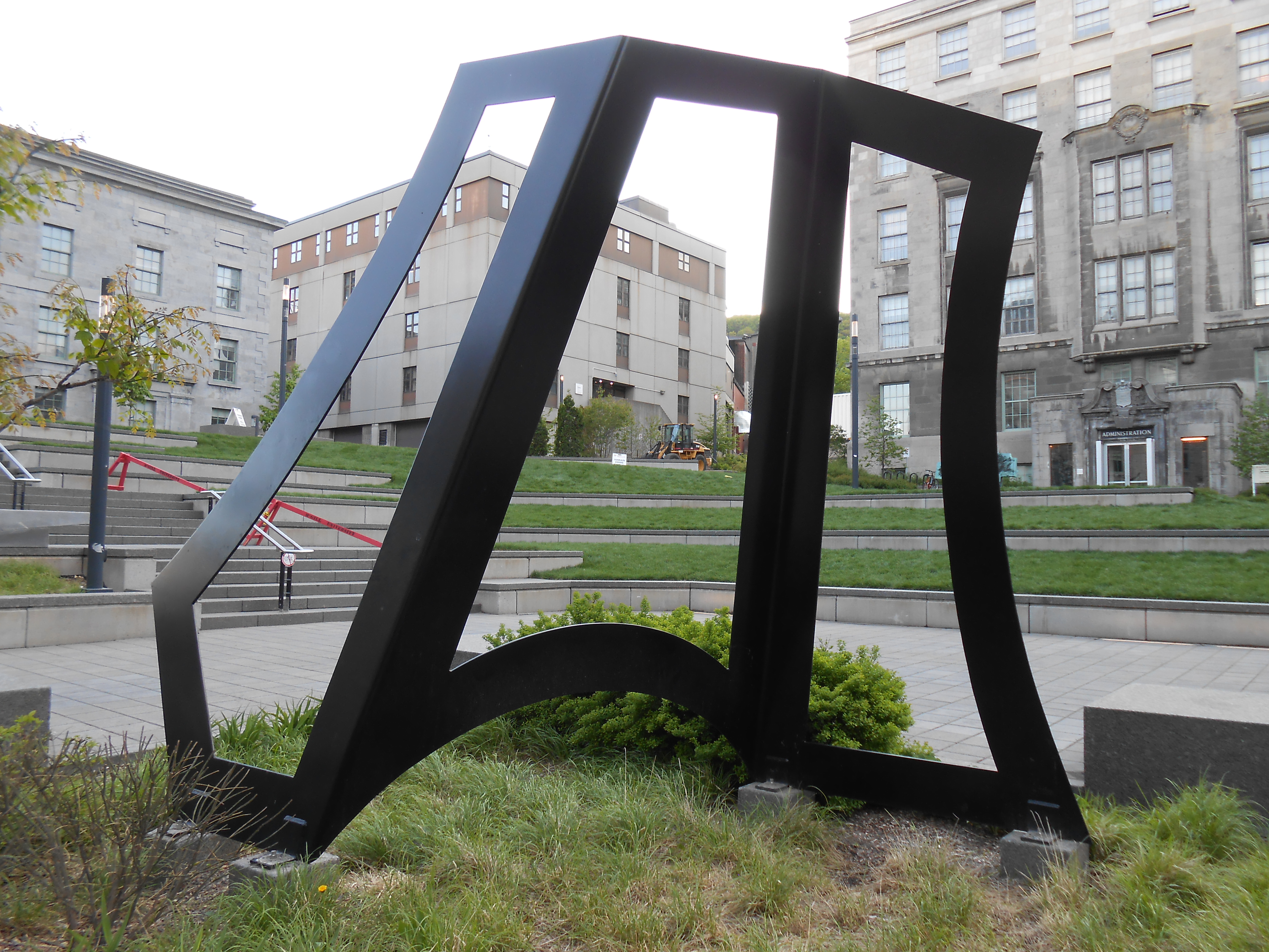 Fenêtre sur l'avenir (1991), by Marcel Barbeau, Miltons Gates, McGill University, Montreal